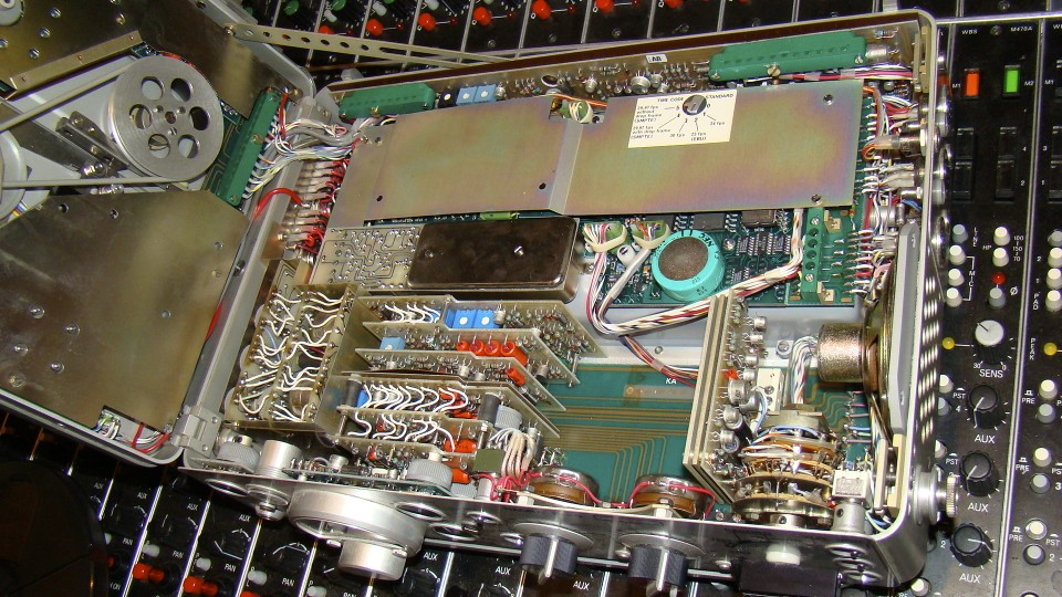 The inside of a Nagra IV-STC stereo field recorder